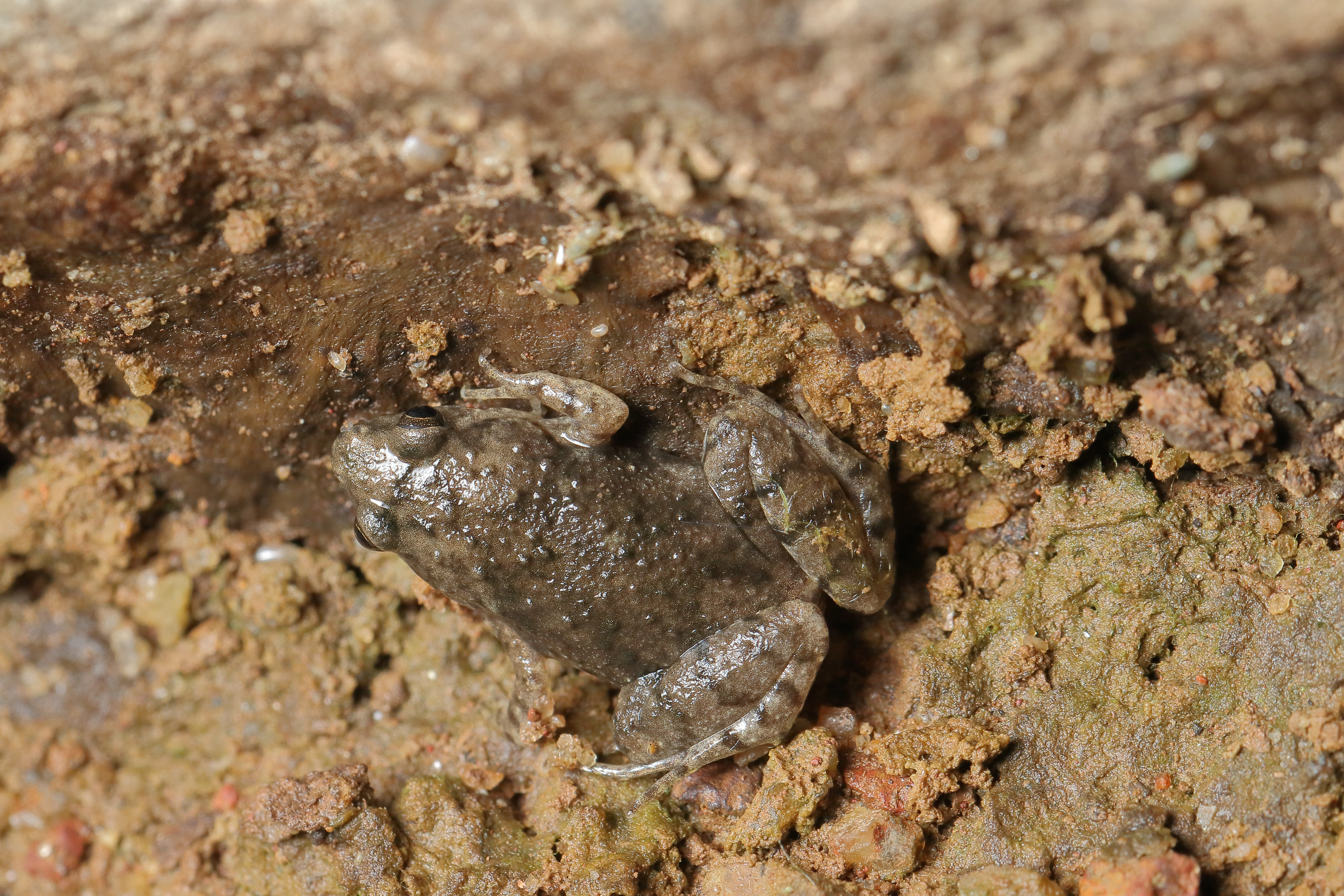 The frog described from Mangalore in May 2018. Found in very small area in an industrial compound.